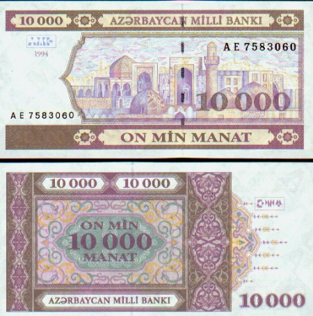 Azerbaijani currency: 10000 Manat (1994) featuring Palace of the Shirvanshahs.